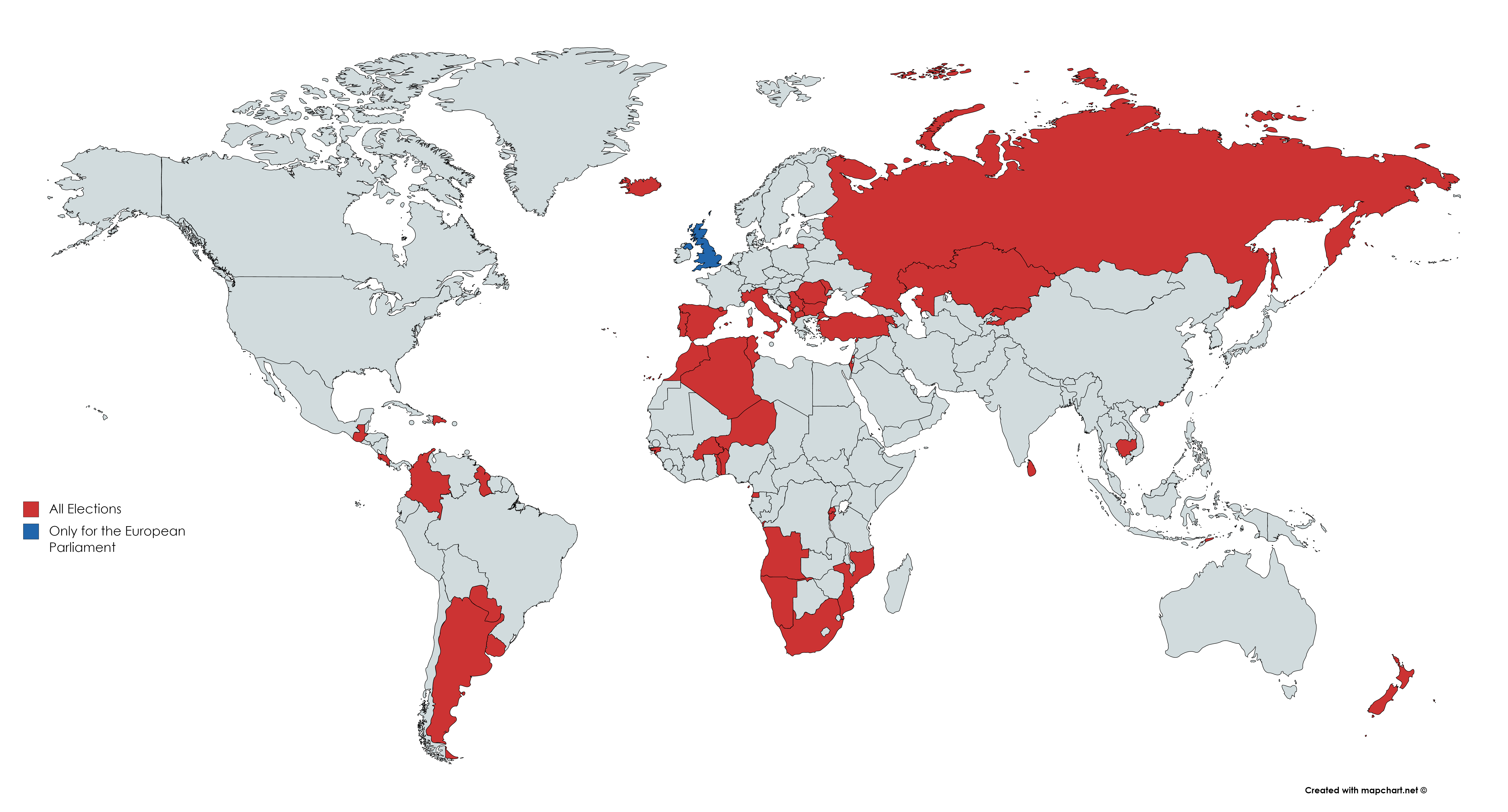 This is a map which shows which countries use closed-list proportional representation, according to the corresponding Wikipedia page, as of August 4, 2019. Made using [1].